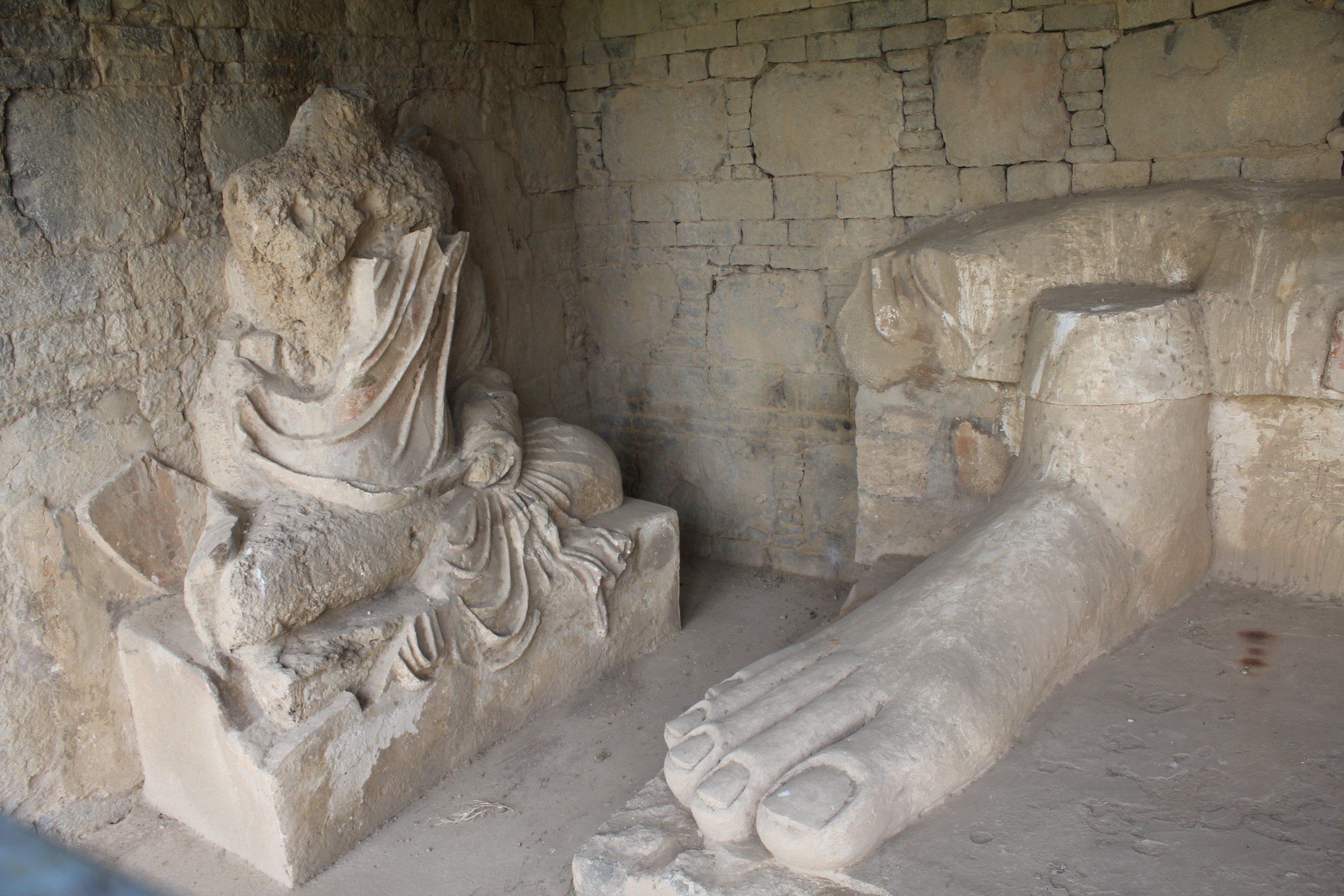 Dharmarajika stupa and monastery This is a photo of a monument in Pakistan identified as the PB-127